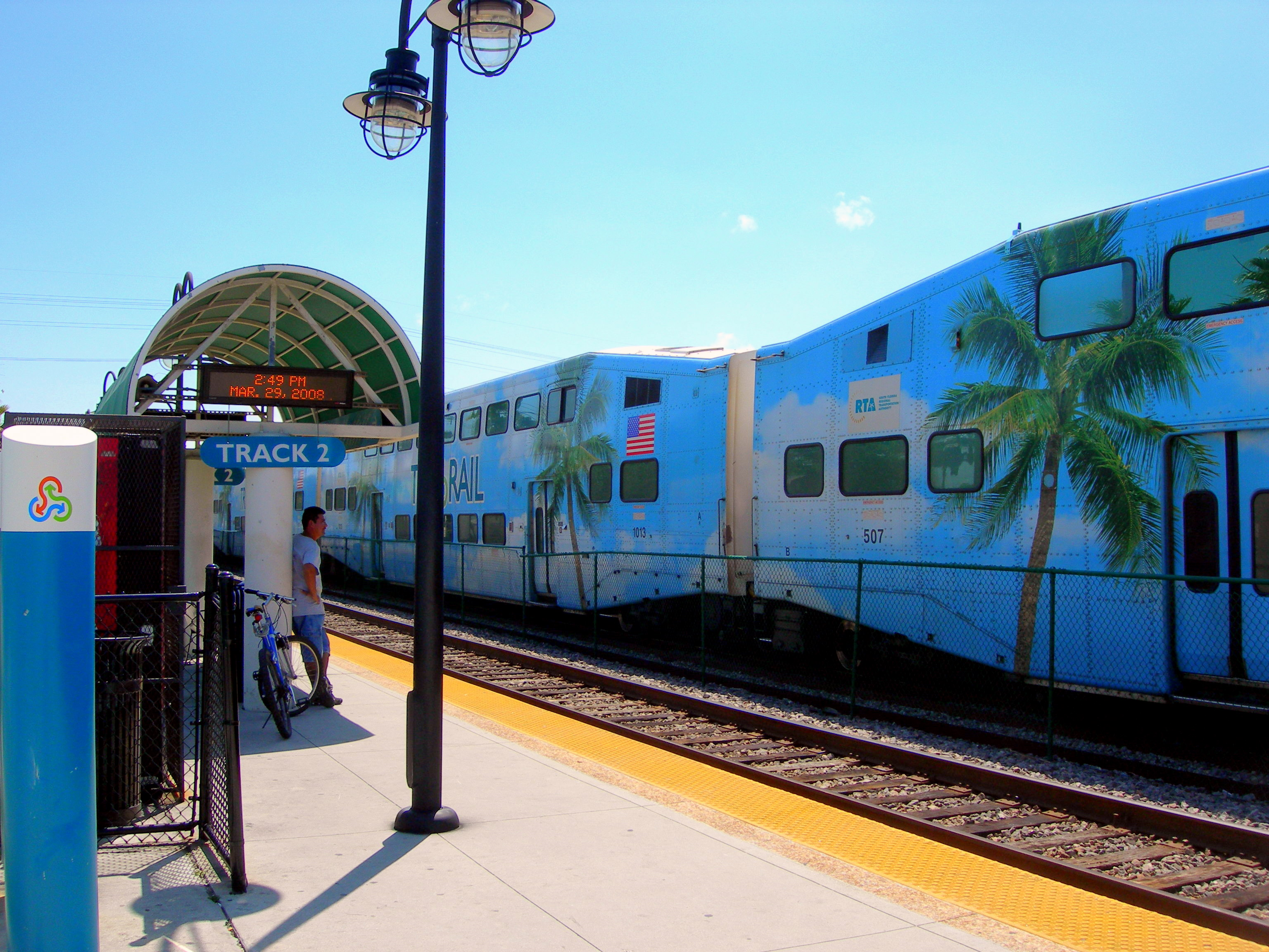 Tri-Rail train station in Pompano Beach, Florida, with train in station